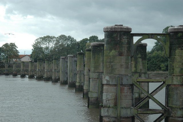 Forth Railway Bridge. The railway between Throsk and Alloa was authorised in 1879 as a branch from the Caledonian Railway's South Alloa branch, the CR absorbed the line in 1884 and it was closed from 6 May 1968. The photograph is from the middle of the river, we are passing through where the swing span was, and shows the southern part of the bridge. This bridge, until the opening of the Forth Bridge at Queensferry, was the most downstream bridge on the Forth. Latterly it was a somewhat rickety affair with a 10mph speed restriction and was used by a shuttle service between Larbert and Alloa operated by a 4 wheel diesel railbus although, in earlier years, there had been through Glasgow - Perth services via the Devon Valley. The bridge, by the way, is not shown on the OS 1/50000 map (!) but is on the Admiralty Charts, fortunately.